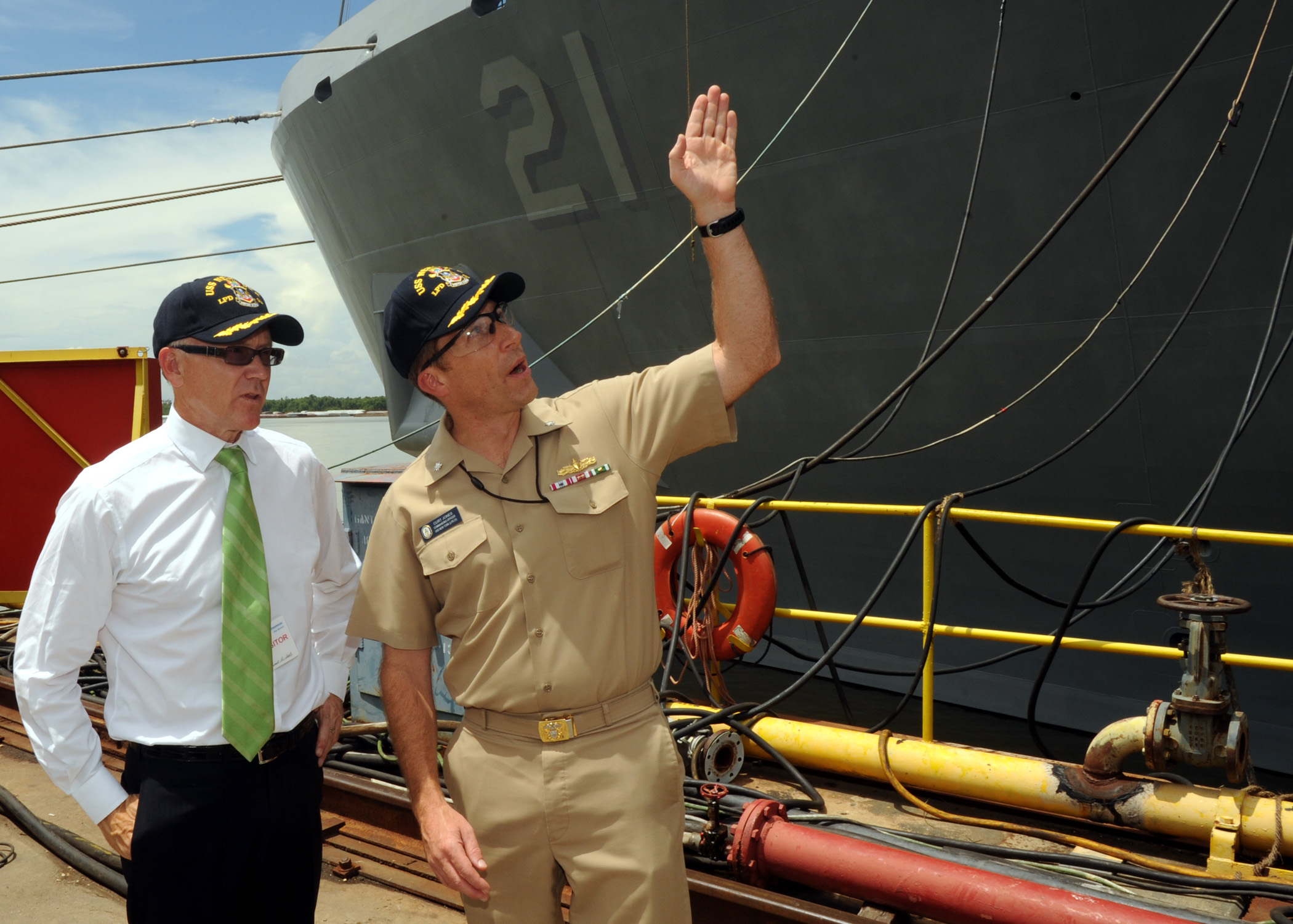 AVONDALE, La. (Aug.15 2009) Cmdr. Curt Jones, right, commanding officer of the San Antonio-class amphibious transport dock ship Pre-Commissioning Unit (PCU) New York (LPD 21), briefs New York Jets owner Woody Johnson before giving Johnson a tour of the ship. Johnson is the commissioning committee president for PCU New York. (U.S. Navy photo By Mass Communication Specialist 1st class Corey Lewis/Released)